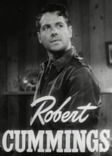 Cropped screenshot of Robert Cummings from the trailer for the film Saboteur.